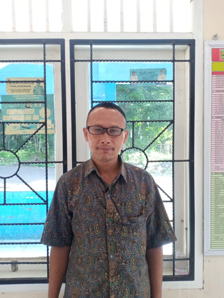 kasi pelayanan